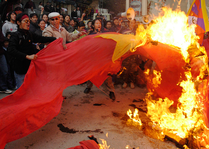 I was chatting online with Qingchen, a schoolteacher friend of mine in China. I helped her install a patch on Flickr that allows her to view otherwise censored content. (Flickr, along with many other websites, are filtered in many parts of China). We usually talk about current events and culture. She asked, "Did you hear about the Olympic torch in France and elsewhere?" She also showed me a video of "hooligans" attacking a handicapped girl who was trying to carry the torch. What was our usual good-natured tête à tête somehow turned bitter as I asserted the usual Western line that China is crushing Tibet's culture--and she carried on with "CNN is all lies," "we are helping Tibet to modernize," "Tibetans are violent hooligans," and that the Dali Lama (sp?) is fomenting this "separatist" sentiment. Politics aside, the argument ended badly, and left a sour taste in my mouth.